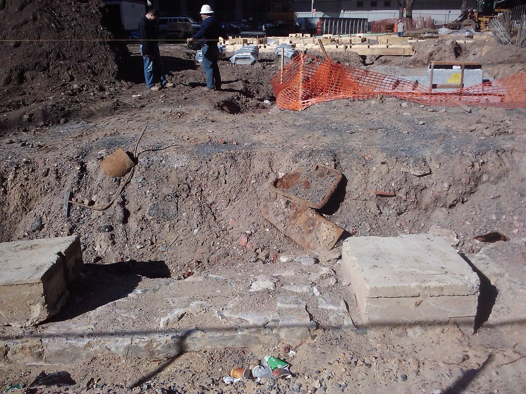 The granite foundation of the Tombs uncovered during reconstruction of Collect Pond Park. Archaeologists were called and a partial stop-work order issued pending further study. The concrete piers on top of the granite were from a later structure which utilized the pre-existing foundation.